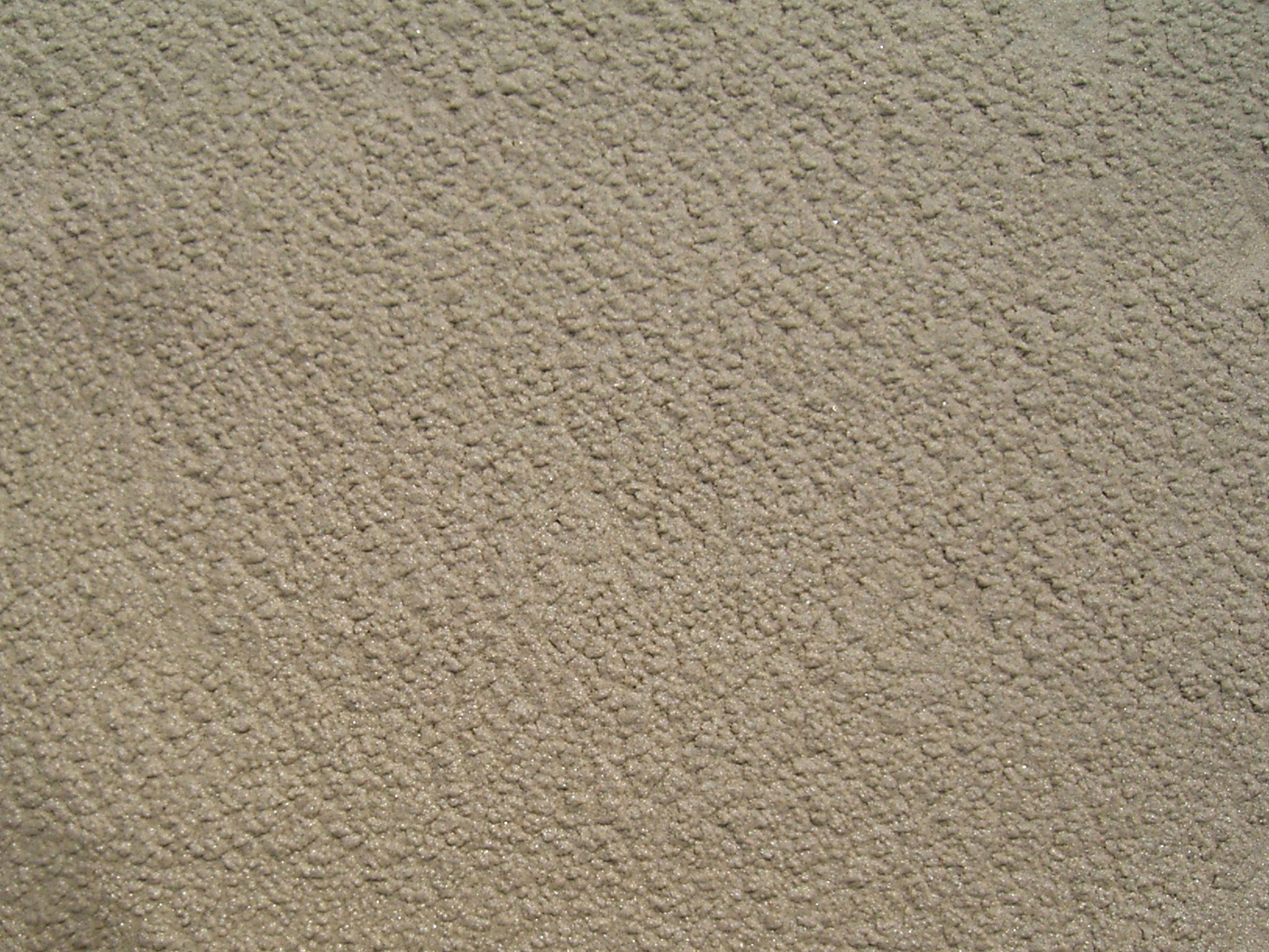 Sand at the coast of Skagen in Denmark